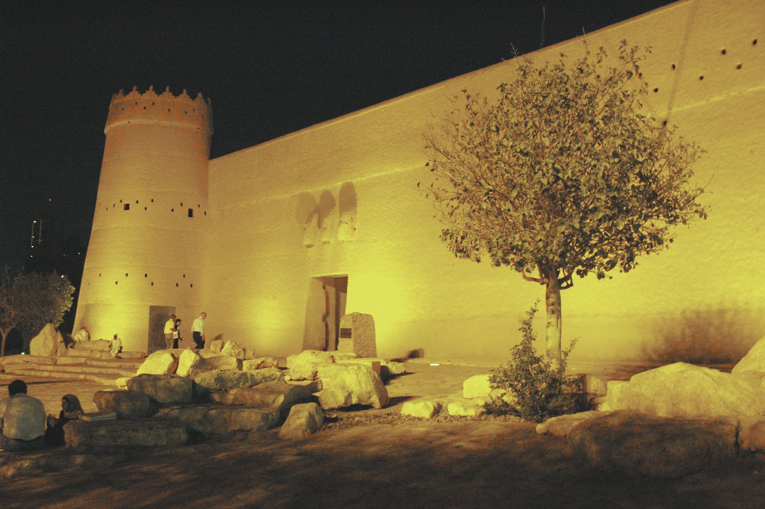 Masmak Fortress, Riyadh at night